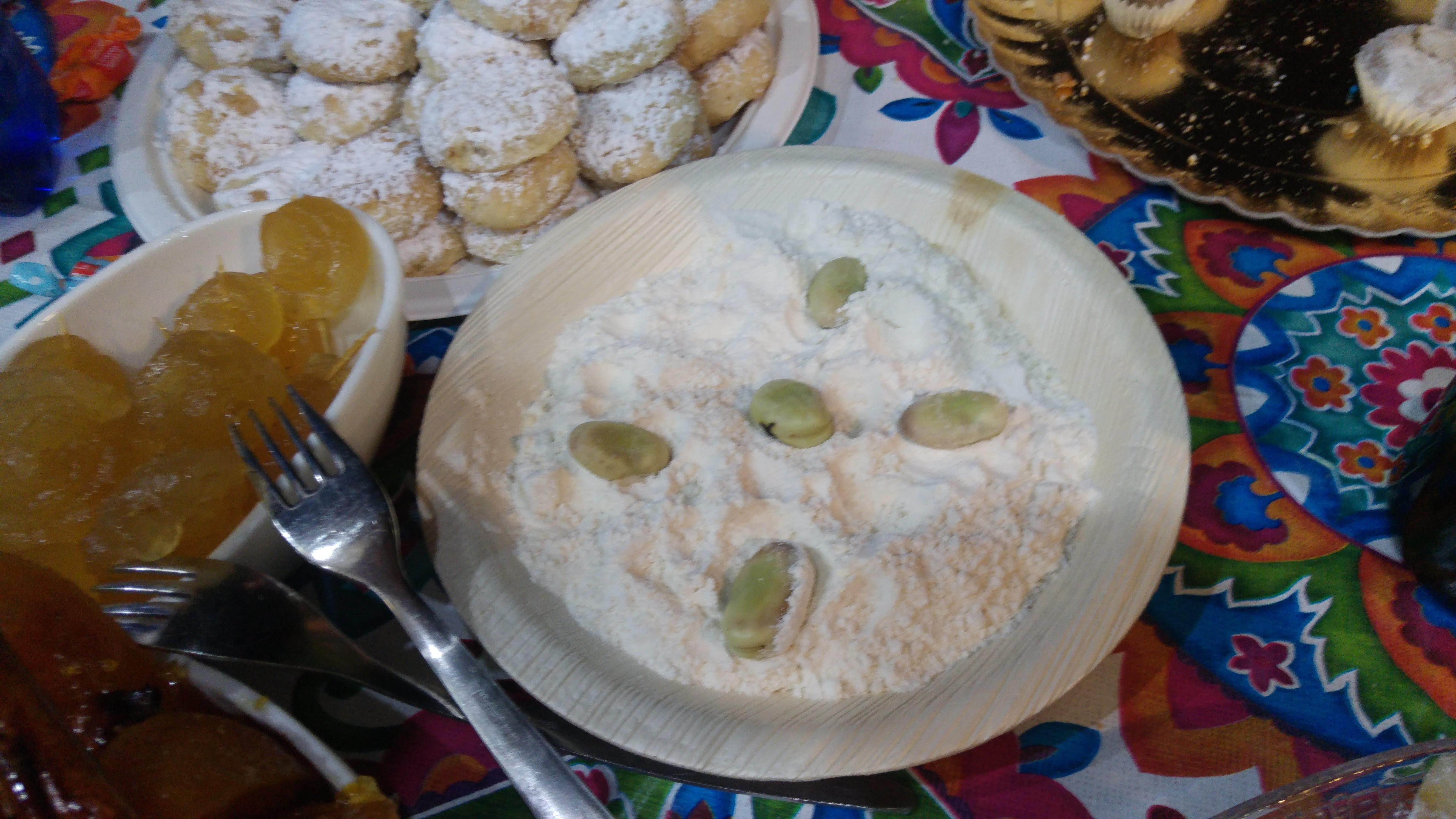 Mimouna celebrations